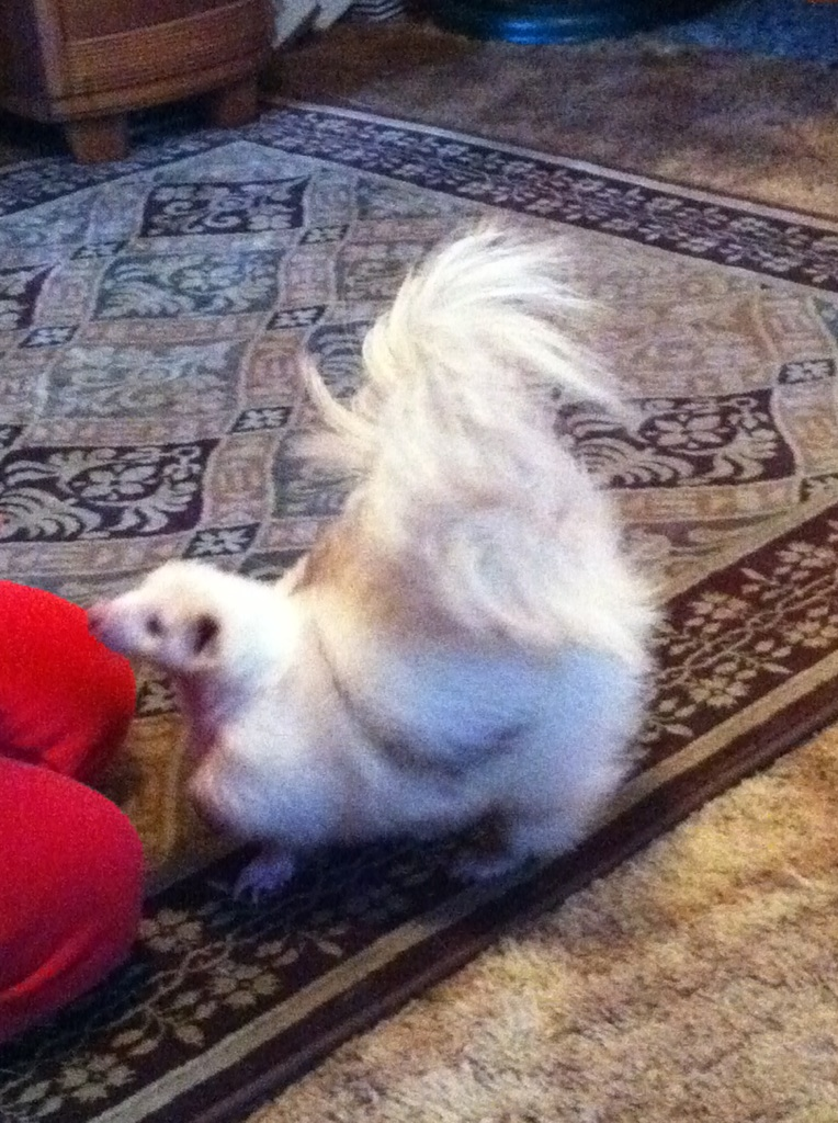 Flowers, a Siamese colored skunk.